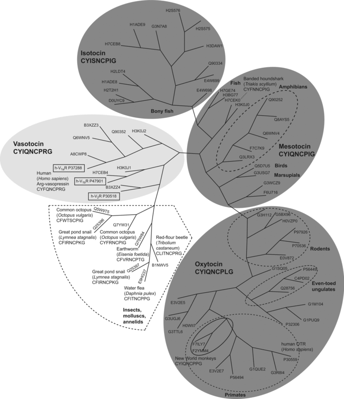 A phylogenetic tree consisting of 69 oxytocin (OT), oxytocin-like, vasotocin (VT) and the human vasopressin receptors and their respective ligands is shown and has been prepared by sequence alignment using ClustalW. Receptor clusters for , isotocin and mesotocin are indicated in dark grey and VT/vasopressin receptors (presumably the ancestral group) are highlighted in light grey. Receptors of species within the same class or order are highlighted by broken lines. The UniProtKB entry numbers of the receptors are shown at the end of each branch. During production of the present review, two research groups independently reported the discovery and functional characterization of an OT/VT-like signalling system in Caenorhabditis elegans. The two nematocin receptors and their peptide ligands are involved in the nematode's gustatory associative learning and reproductive behaviour. In contrast with humans and other animals, these nematodes produce an undecapeptide that is only functional at full length. It contains the typical six-residue N-terminal ring, but has an additional two residues at its C-terminus. The evolutionary perspective of this modification, its influence on ligand binding and the phylogenetic relationship of the receptors have yet to be established.